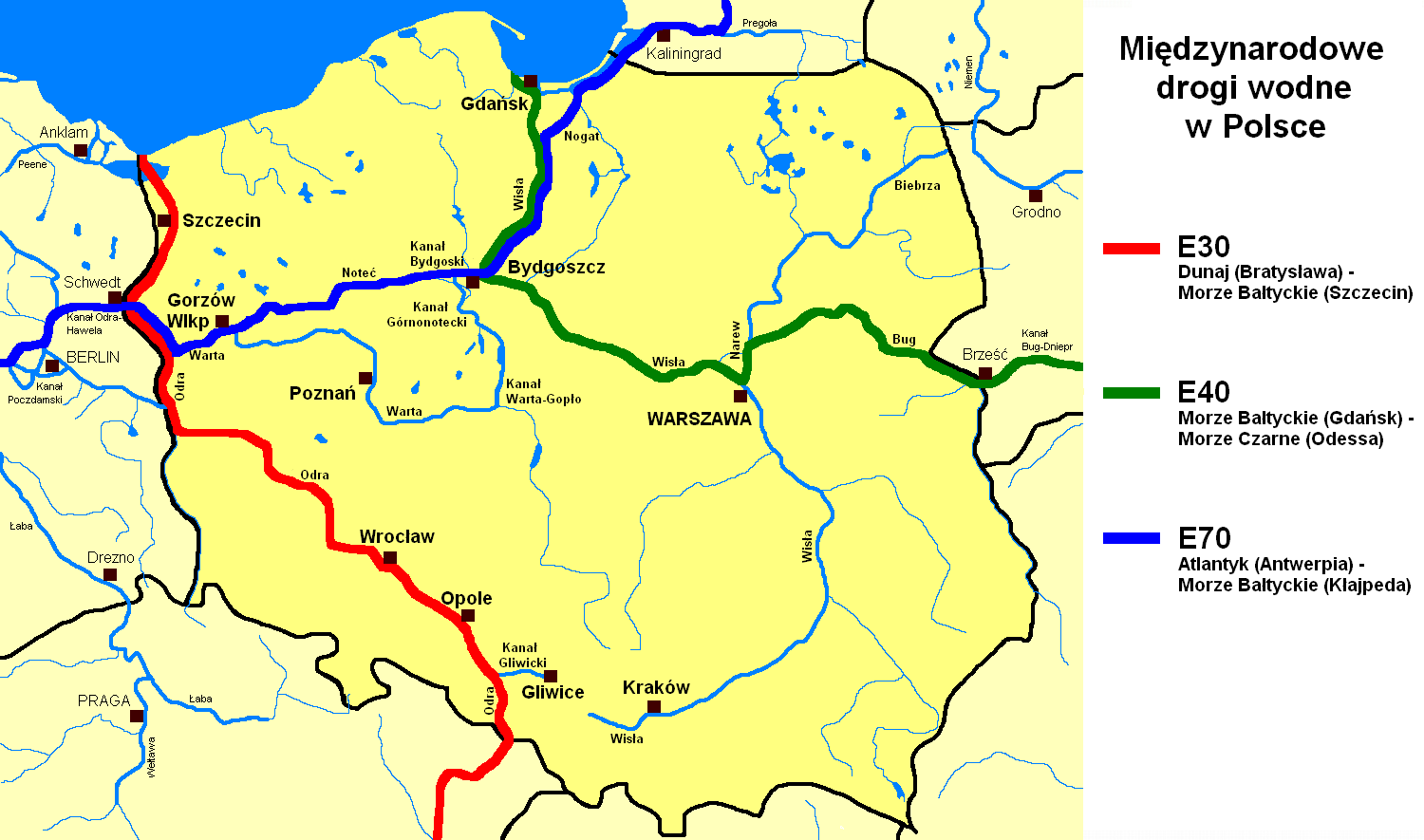 European Waterways (rivers + canals) in Poland, schematic drawing